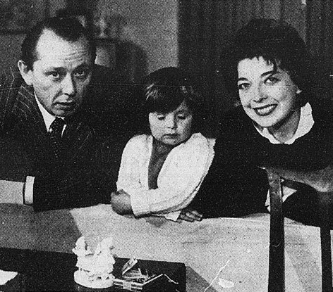 Italian director Carlo Alberto Chiesa, actress Isa Barzizza and their daughter Carlotta